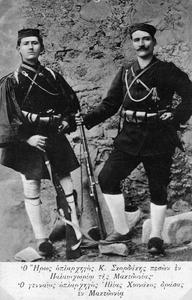 Iliyas Hionakas and Konstantinos Skordakos - greek andarts